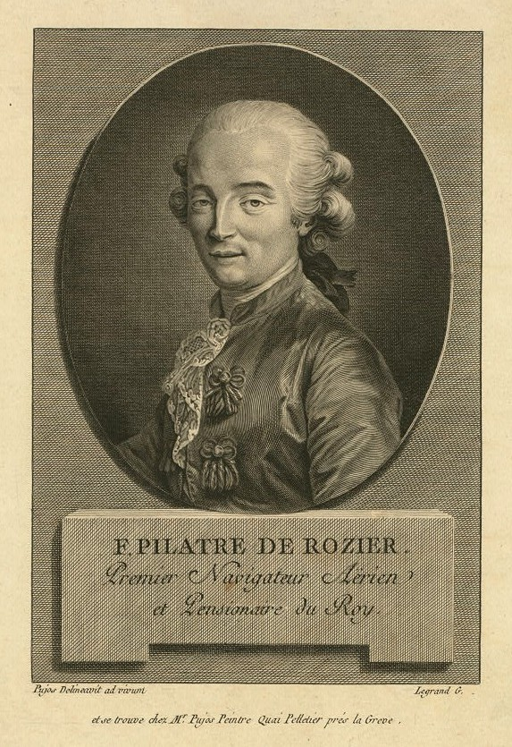 Jean-François Pilâtre de Rozier, French balloonist. Cropped and contrast-enhanced image from the Library of Congress online collection. This image is now in the public domain. See catalog information below. CALL NUMBER: LOT 13400, no. 43 [P&P] Check for an online group record (may link to related items) REPRODUCTION NUMBER: LC-DIG-ppmsca-02227 (digital file from original print) LC-USZ62-15586 (b&w film copy neg.) No known restrictions on publication. SUMMARY: Oval head-and-shoulders portrait of French balloonist Jean-François Pilâtre de Rozier, who took the first balloon flight in 1783. RELATED NAMES: Pujos, André, 1738-1788, artist. Title from item. Tissandier collection. SUBJECTS: Pilâtre de Rozier, Jean-François, 1754-1785. Balloonists--French--1780-1800.